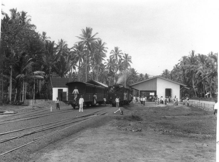 The railway station in Payakumbuh, West-Sumatra.